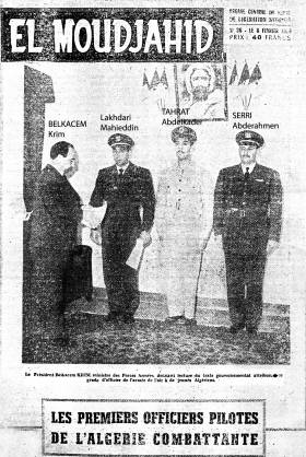 Photo taken at the headquarters of P.G.A.R In Cairo